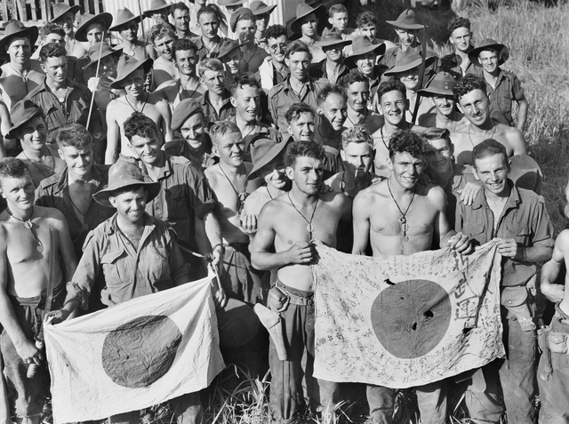 Soldiers from the 2/6th Independent Company diplay Japanese flags they captured during the battle of Kaiapit between 19 and 20 September 1943. AWM photo 057510